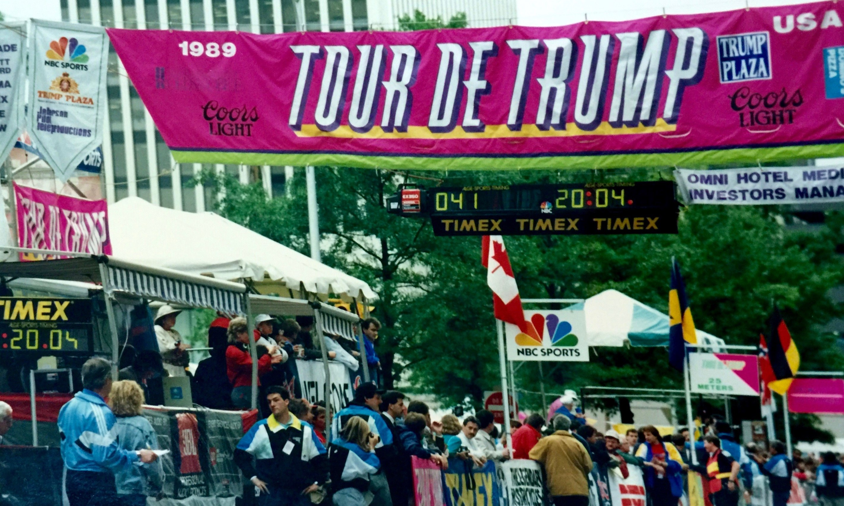 1989 Tour de Trump cycle race, Richmond, Virginia, USA